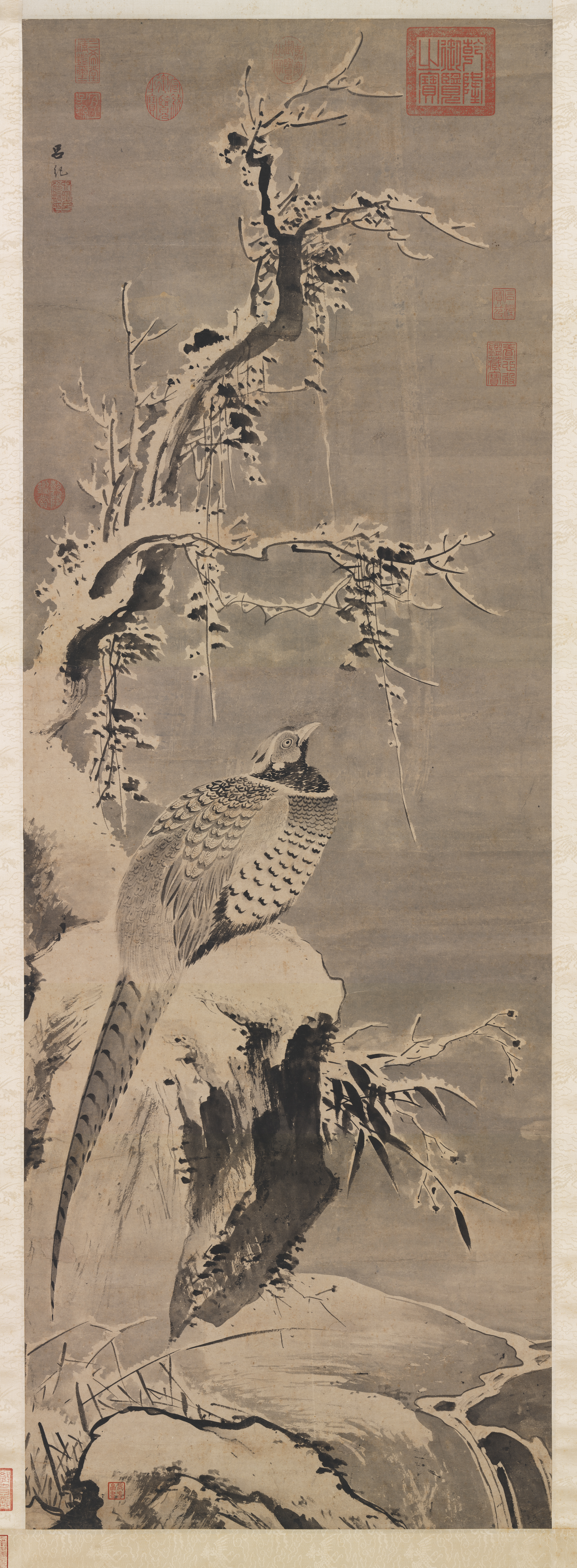 Lü Ji Wild Pheasant in a Snowy Winter. 15 cent. National Palace Museum Taipei